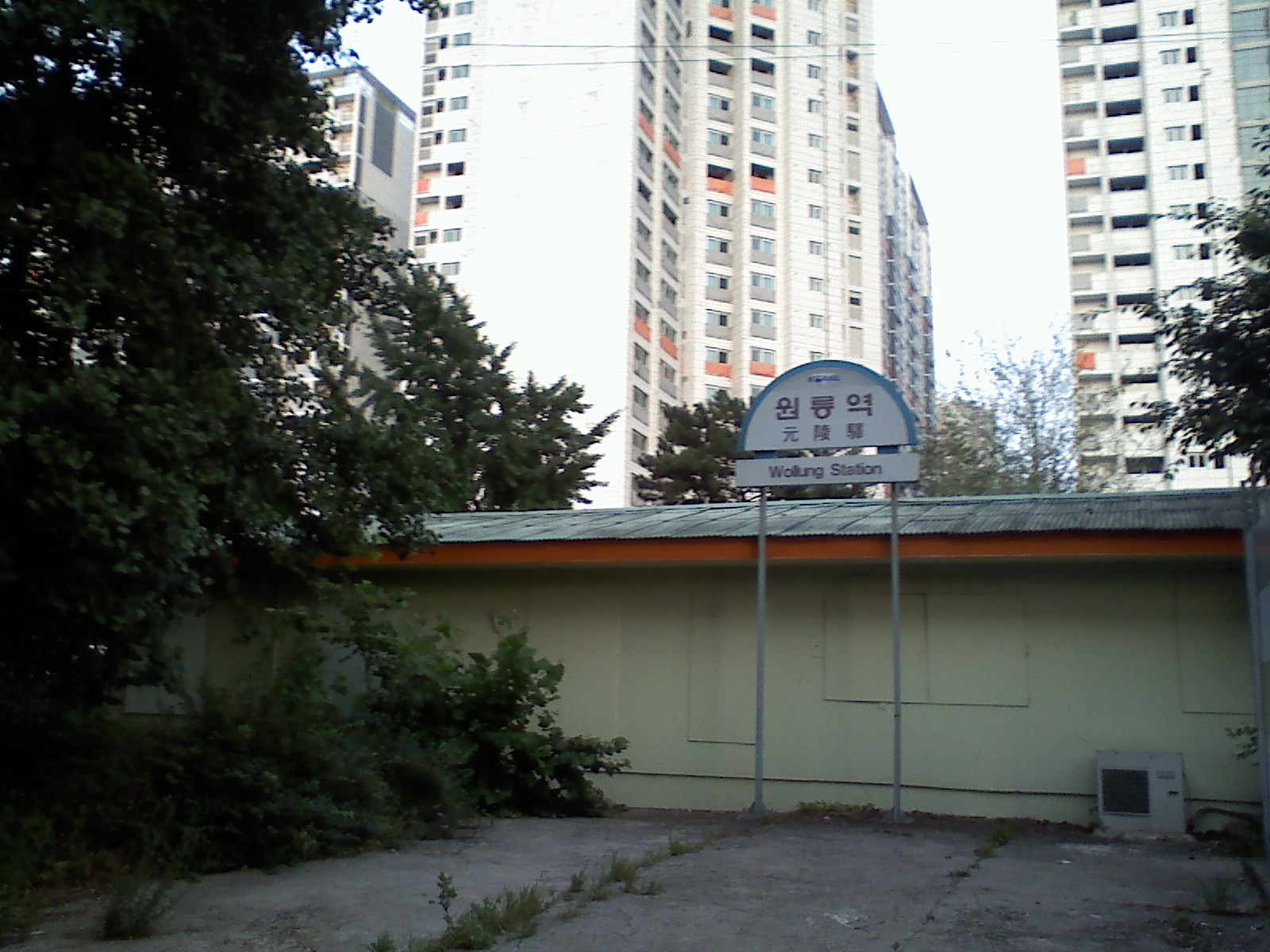 Wolleung station